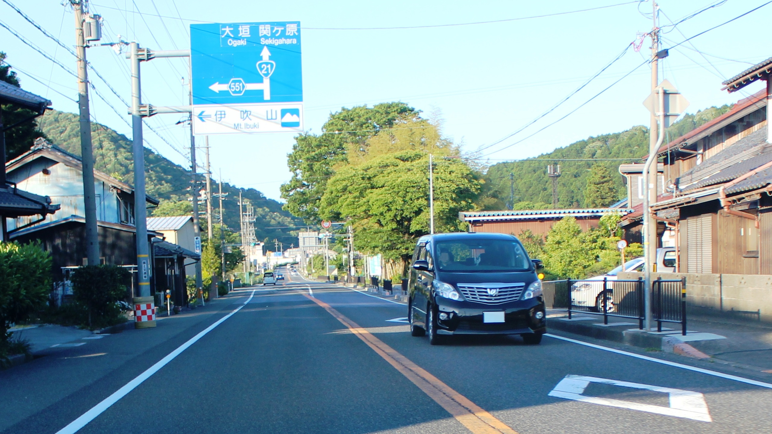 Route 21 and Shiga Prefectural Road Route 551 in Kashiwabara, Maibara, Shiga Prefecture, Japan.